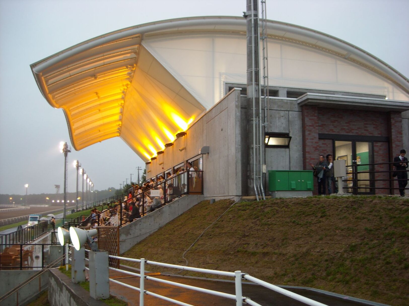 Poralis Dome (Mombetsu Racecourse)